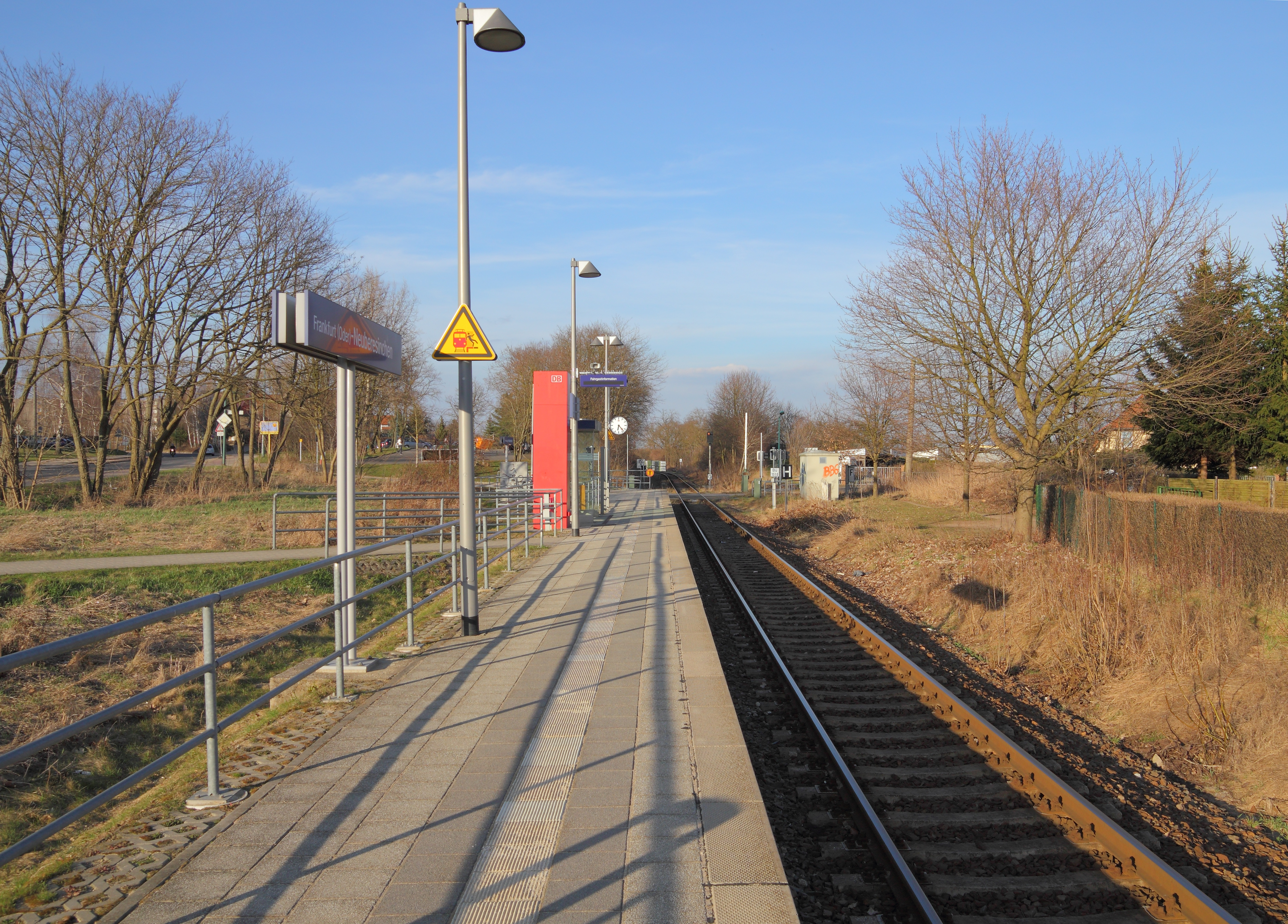 Train stop Neuberesinchen, Frankfurt (Oder), Brandenburg, Germany